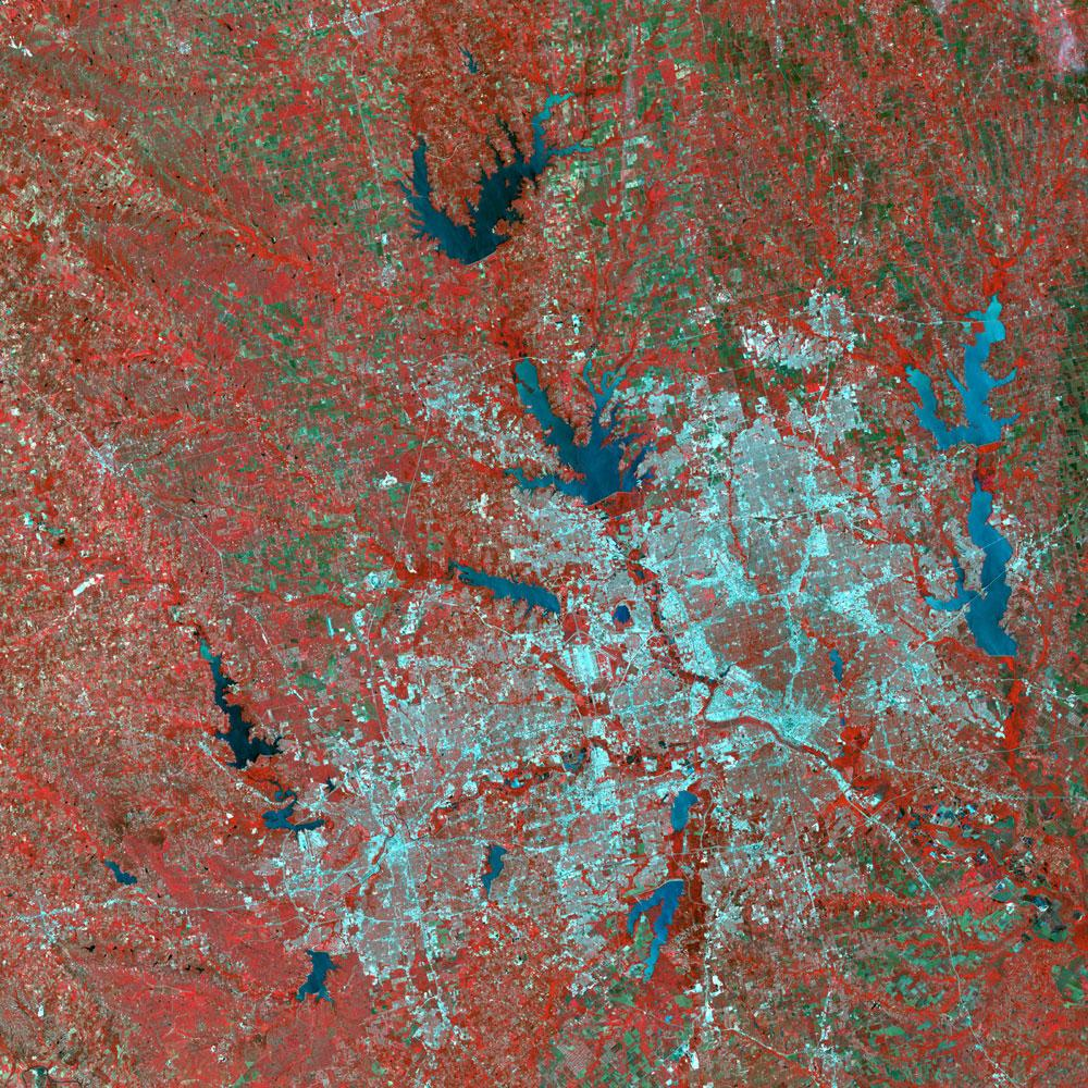 Large Landsat of Dallas A simulated-color satellite image of Dallas and Fort Worth, Texas, taken by NASA's Landsat 7 satellite. Dallas makes up the right half of the urbanized area.